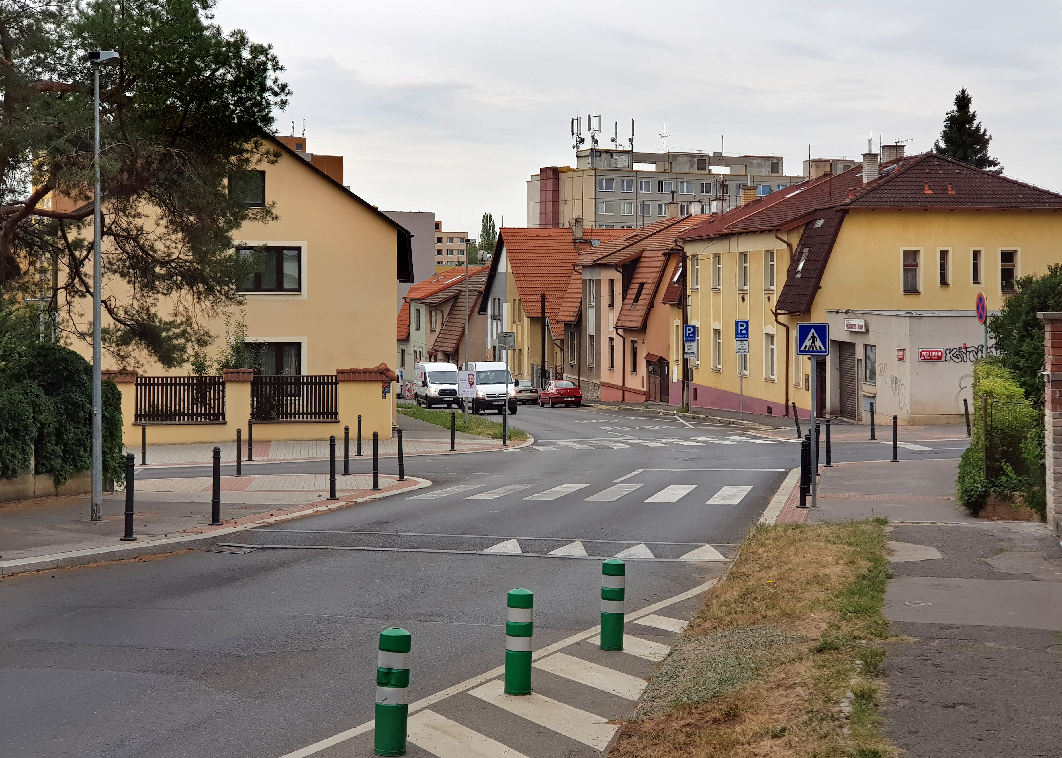 North part of Na Jarově street, Prague.